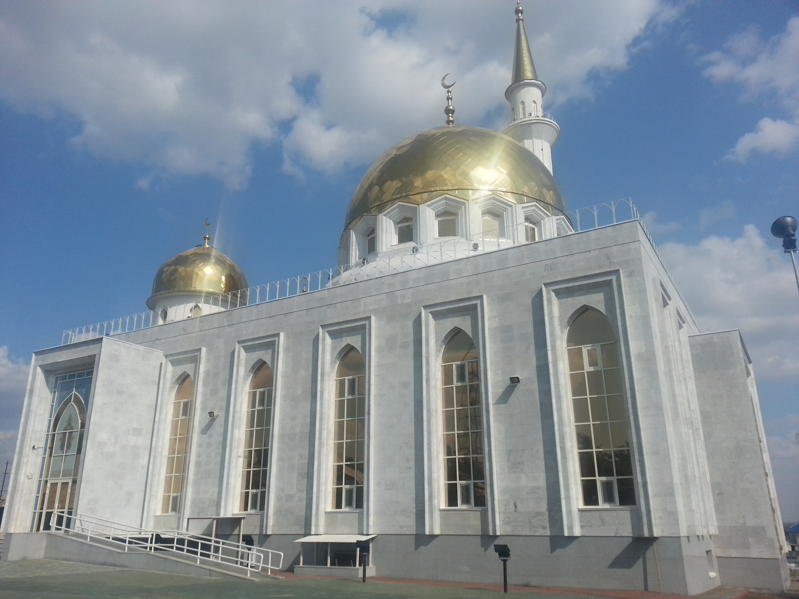 Aktobe Central mosque (exterior)